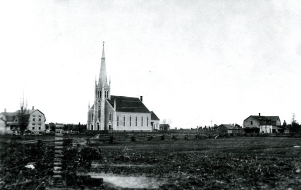 The Sainte Thérèse of Avila church in Robertville, New Brunswick, circa 1920.